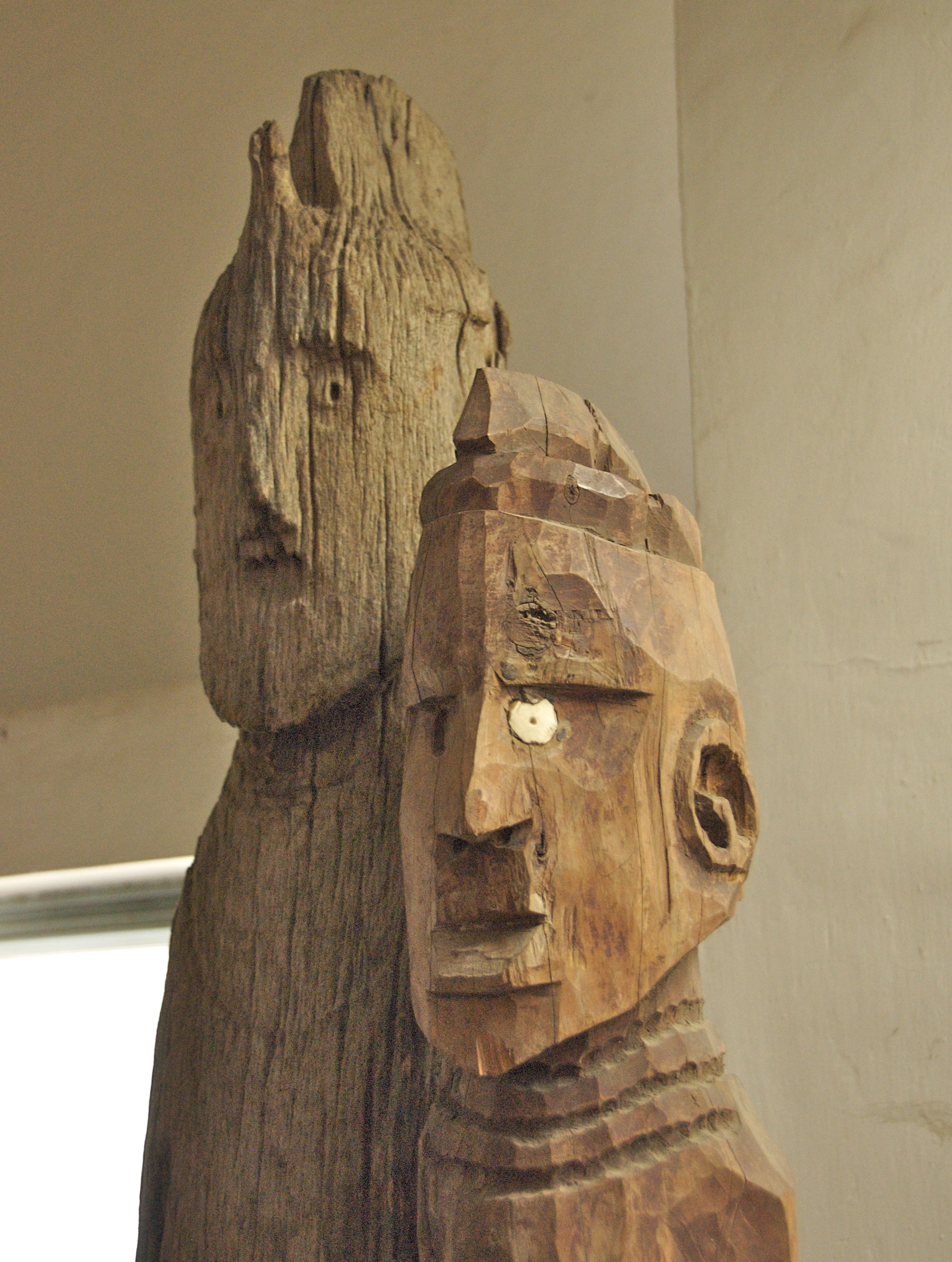 Called "waga," these grave markers are from the Konso people of southern Ethiopia. If you didn't know better, you'd think they were from New Guinea. In the ethnographic collection of the National Museum, Addis Ababa, Ethiopia. I've complied with restrictions on the use of flash, and taken photos only when permitted by the museum.